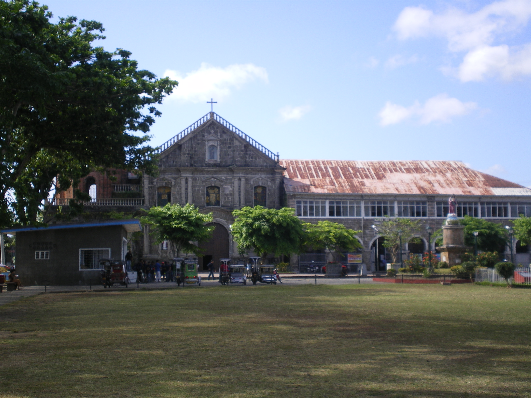 Pila,Laguna Catholic Church